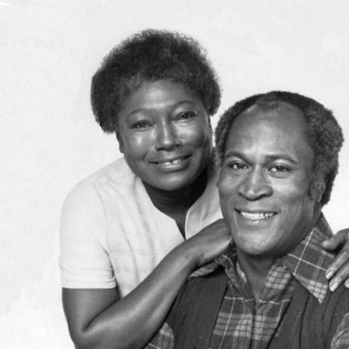 Publicity photo from Good Times. Pictured are John Amos (James Evans) and Esther Rolle (Florida Evans). This was for the premiere of the show. Press release is dated 11 January 1974. Episode aired 8 February 1974. 20 August 2011 (original upload date)